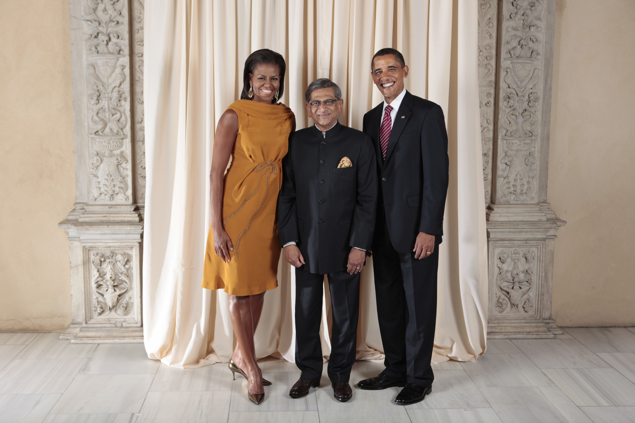 President Barack Obama and First Lady Michelle Obama pose for a photo during a reception at the Metropolitan Museum in New York with S M Krishna, Indian Minister for External Affairs.